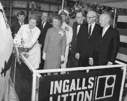 USS Tautog Christening